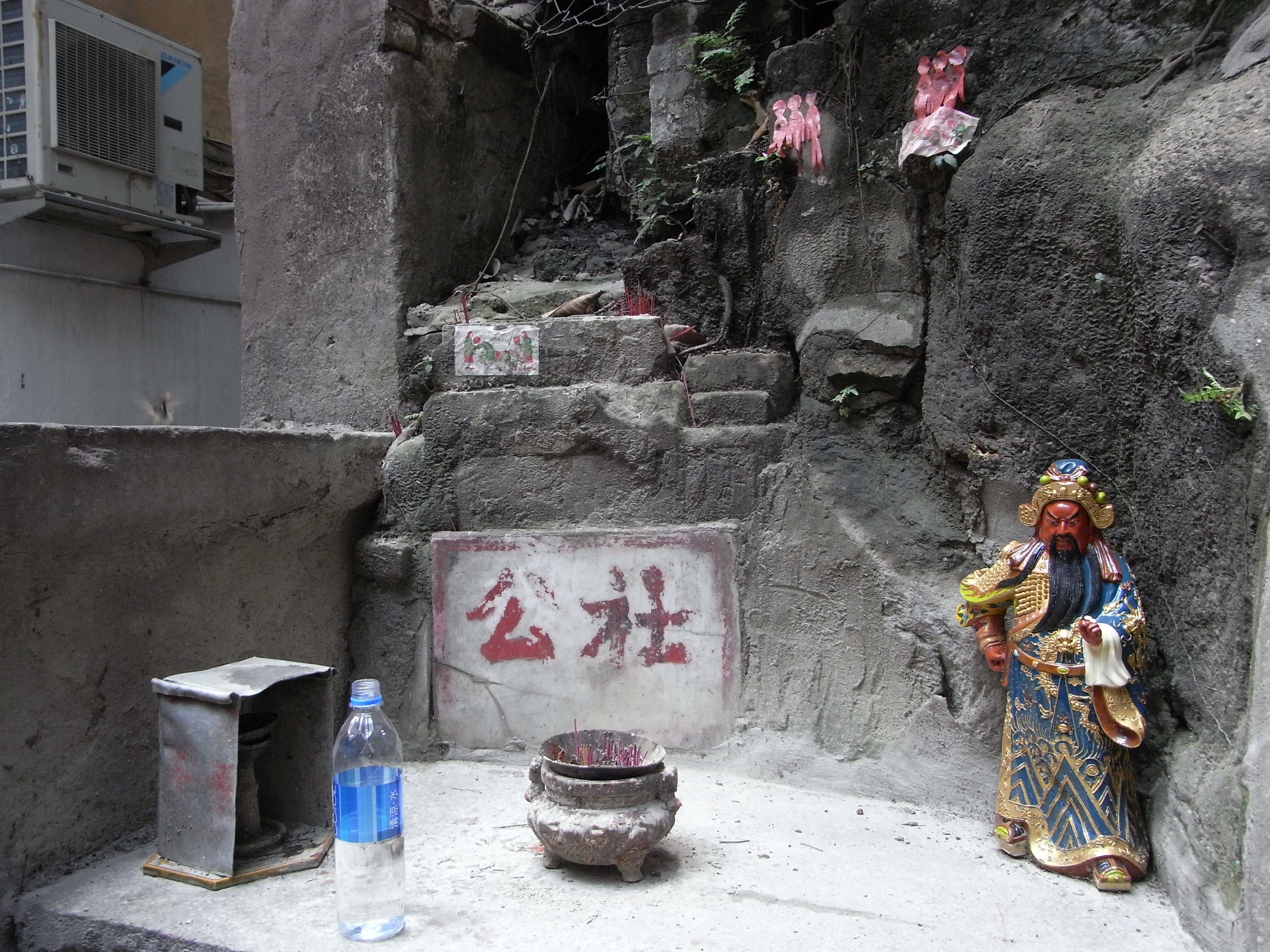 灣仔